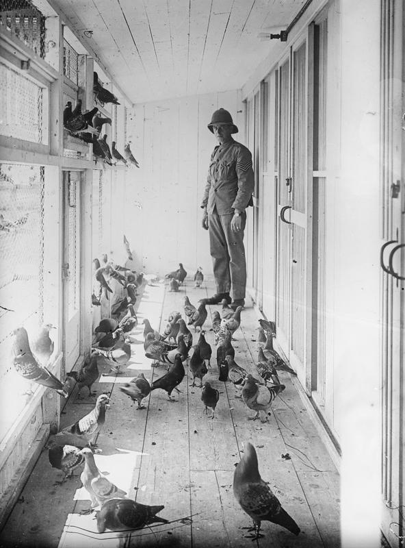 Photography Interior of a Field Pigeon Loft, R. N. A. S. Eastern Front.